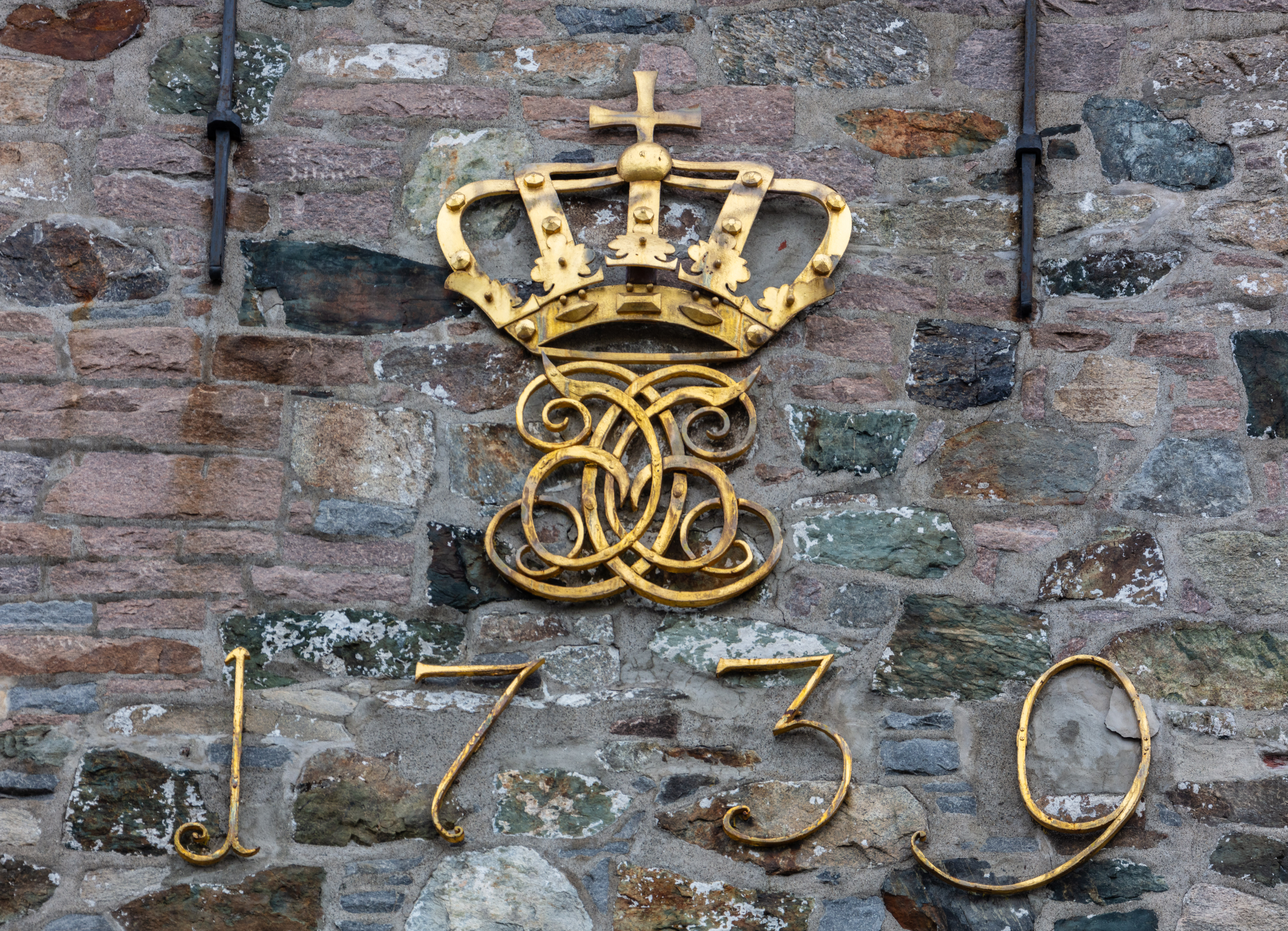 Church of Our Lady, Trondheim, Norway